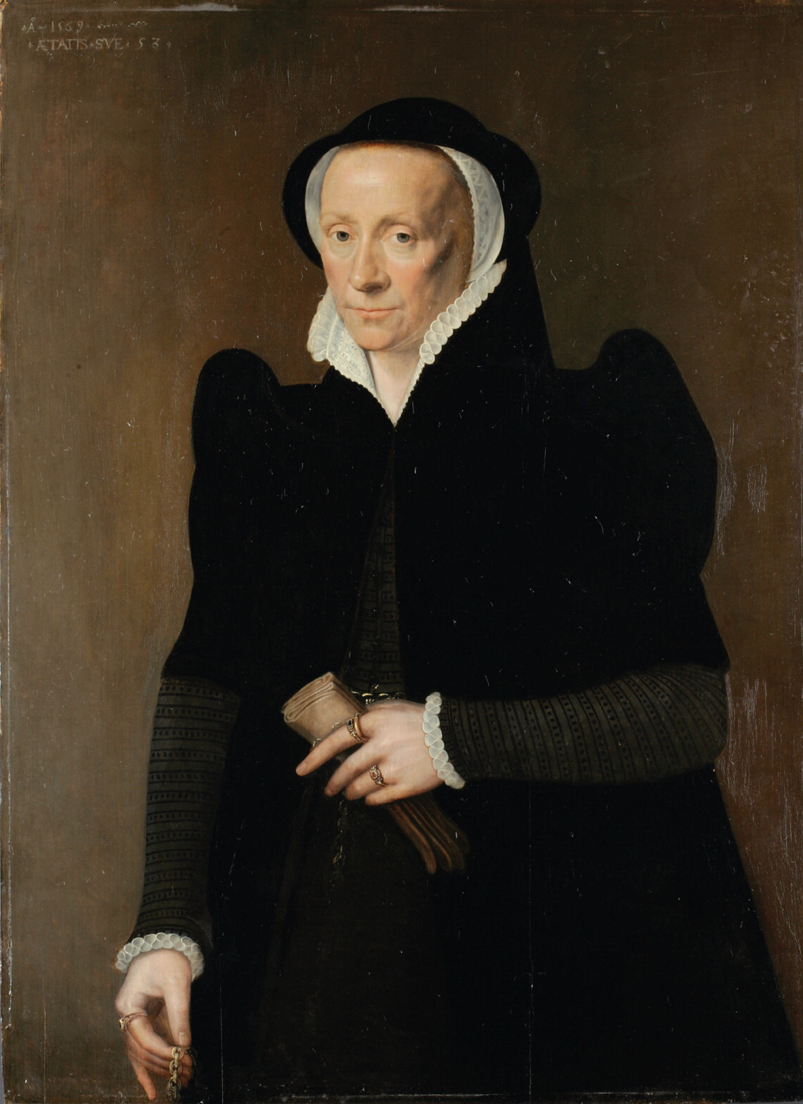 Posthumous portrait of Elizabeth Audley (c.1510–64), Lady Audley (née Lady Elizabeth Grey), 1569.[1]